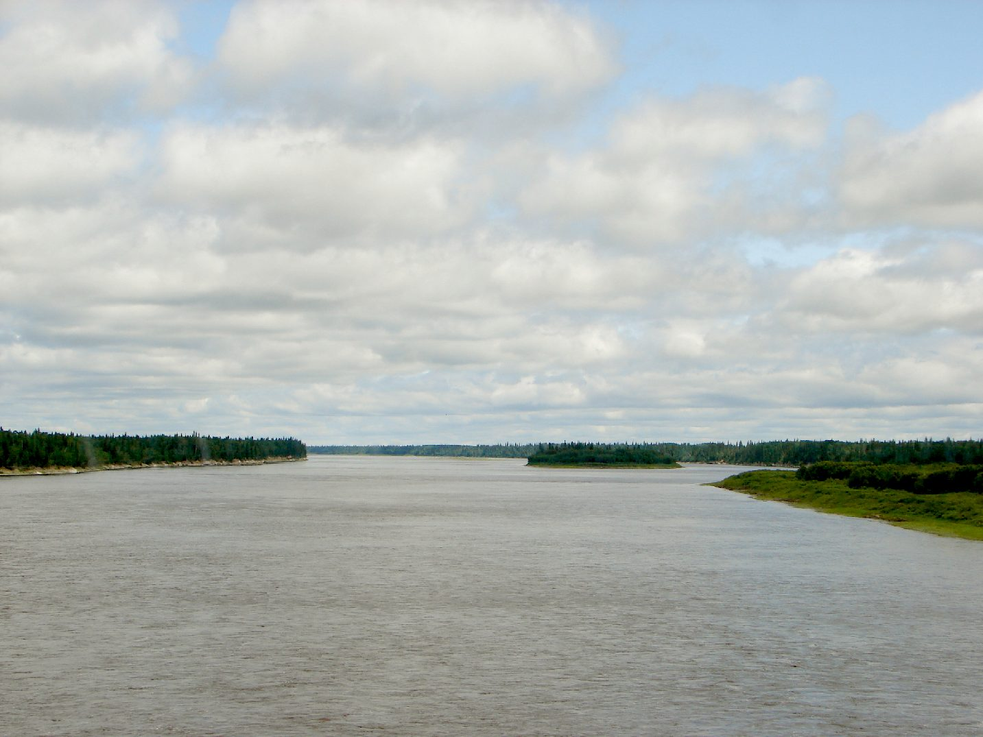 Moose River as seen from the Ontario Northland railway bridge (looking north).